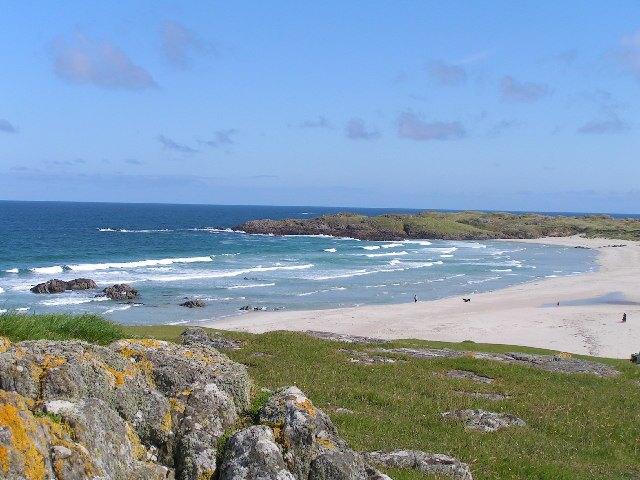 Traigh Bail, Tiree.